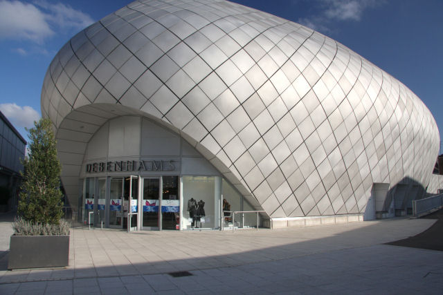 Debenhams store, arc shopping development The shape of this modern construction has provided the name for this shopping development on the site of the former cattle market, in the centre of Bury St Edmunds.